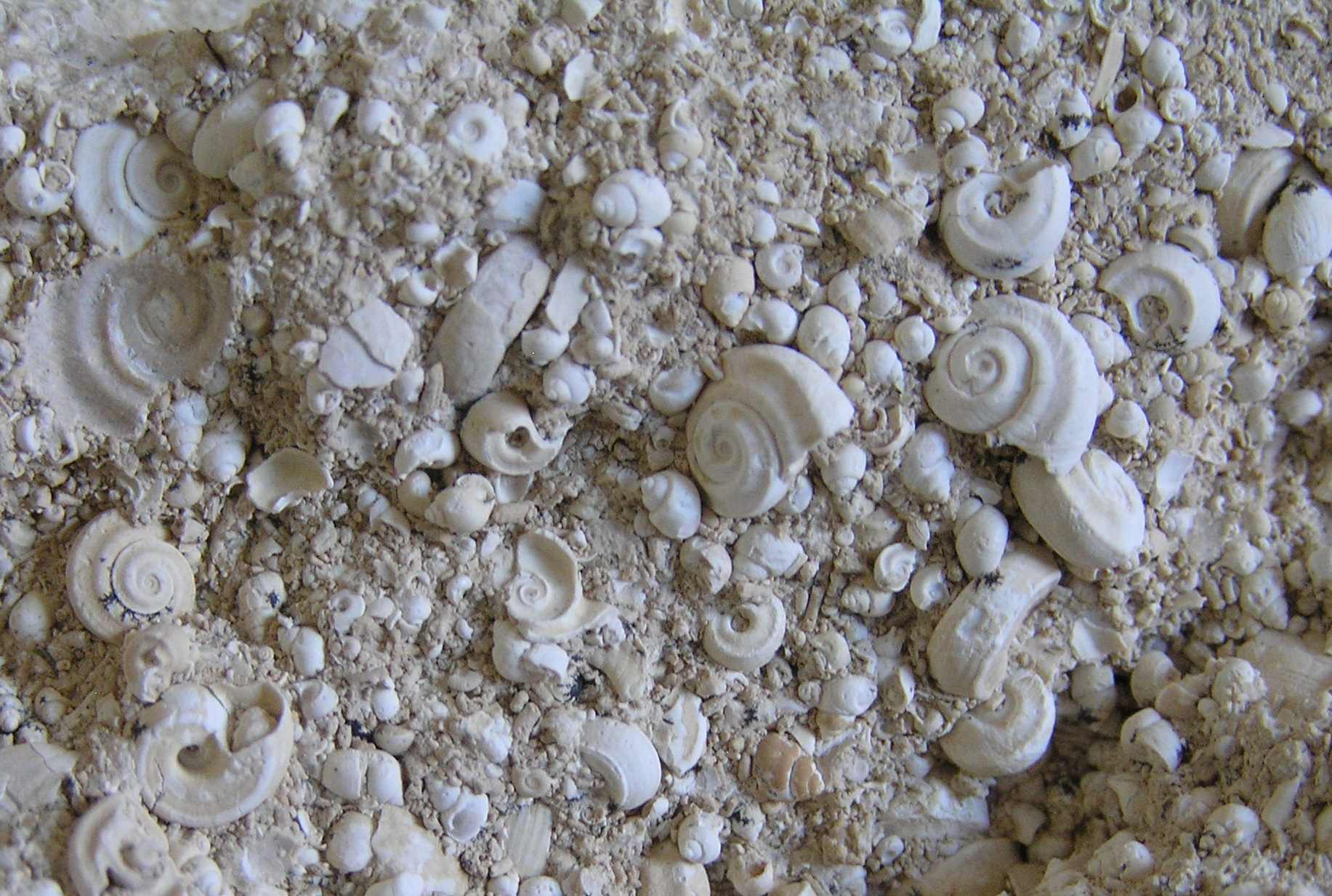 Schneckensand